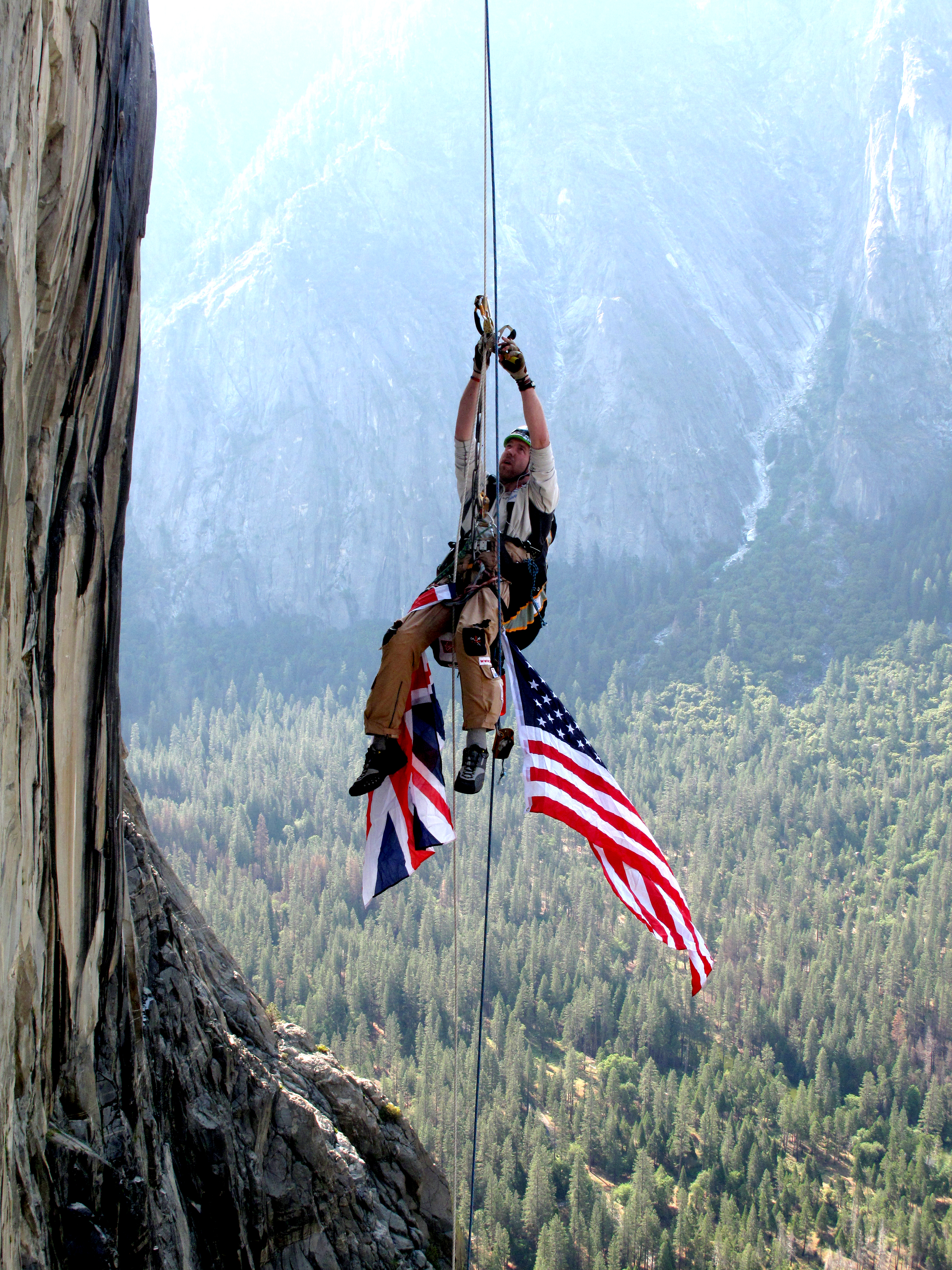 Packer hauling himself up El Capitan - he completed 4250 pull ups in 4 days